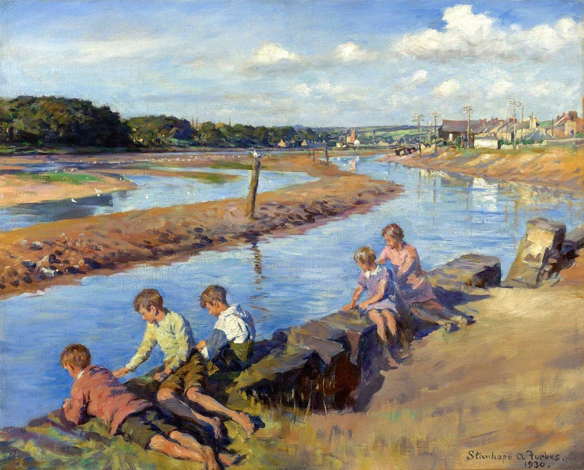 Young anglers at Hayle - Stanhope A Forbes - 1930